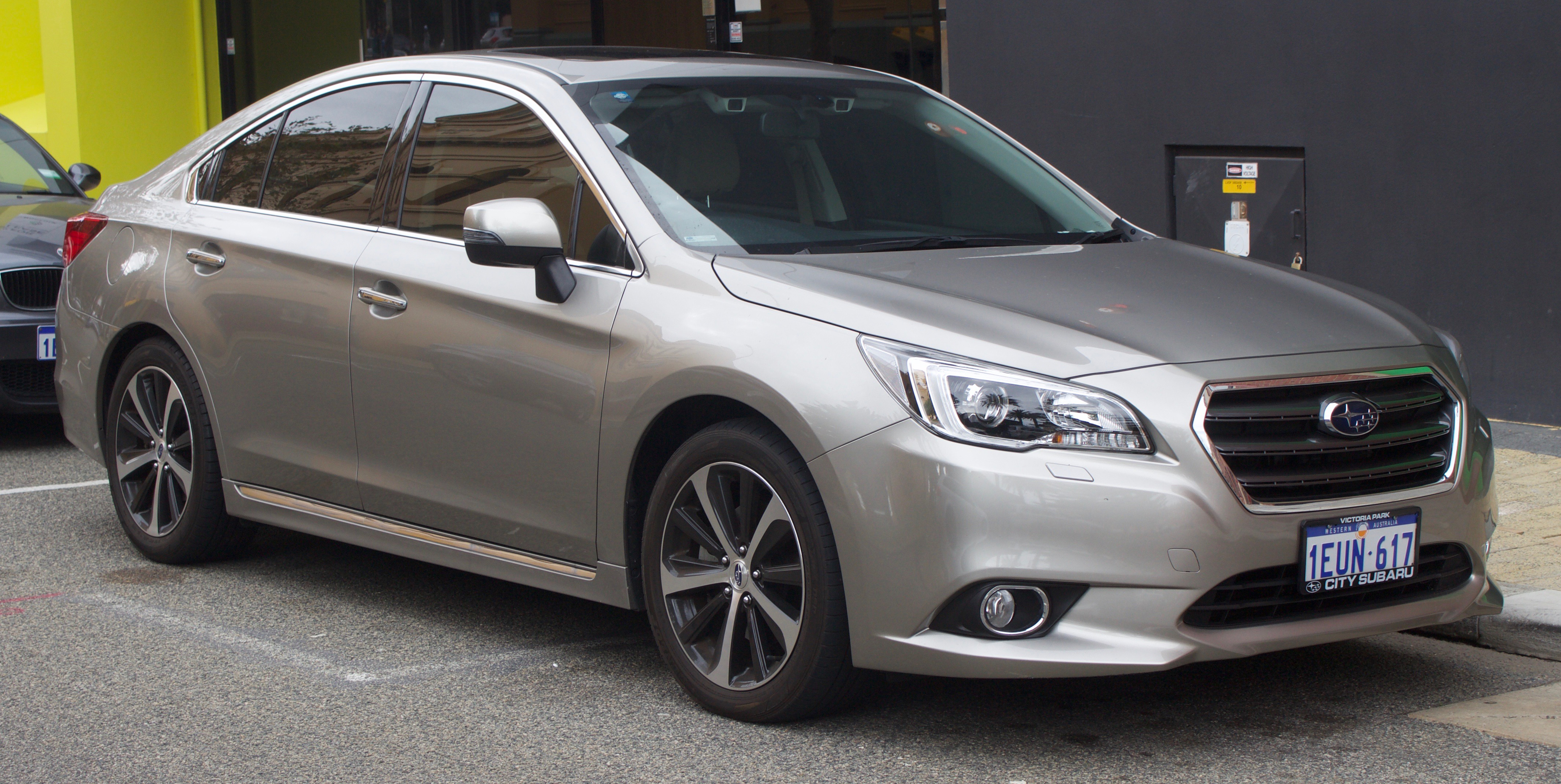 2015 Subaru Liberty (MY15) 3.6R sedan. Photographed in Fremantle, Western Australia, Australia. This is the 3.6R as identified by the chrome door sills.